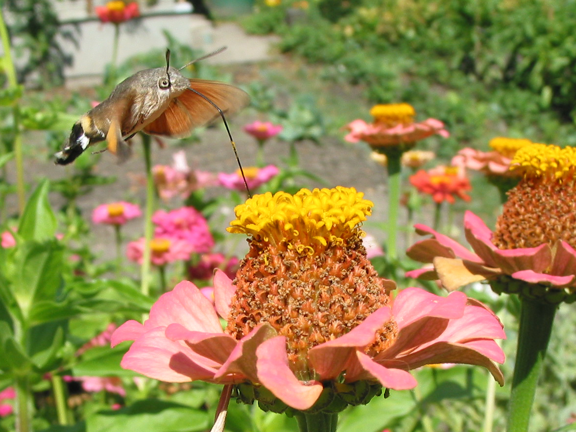 Photo of Macroglossum stellatarum (Linnaeus, 1758) on Zinnia violacea (syn. Z. elegans). hummingbird hawk moth (a moth, not a bird).